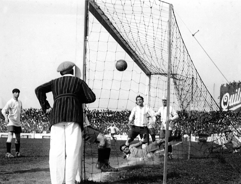 The first goal scored direct from a corner kick, shot by Argentine player Cesáreo Onzari against Uruguay national team. The match was played in Sportivo Barracas stadium where Argentina defeated Uruguay by 2-1. This kind of goal has been popularly known as "gol olímpico" (olympic goal) since then.